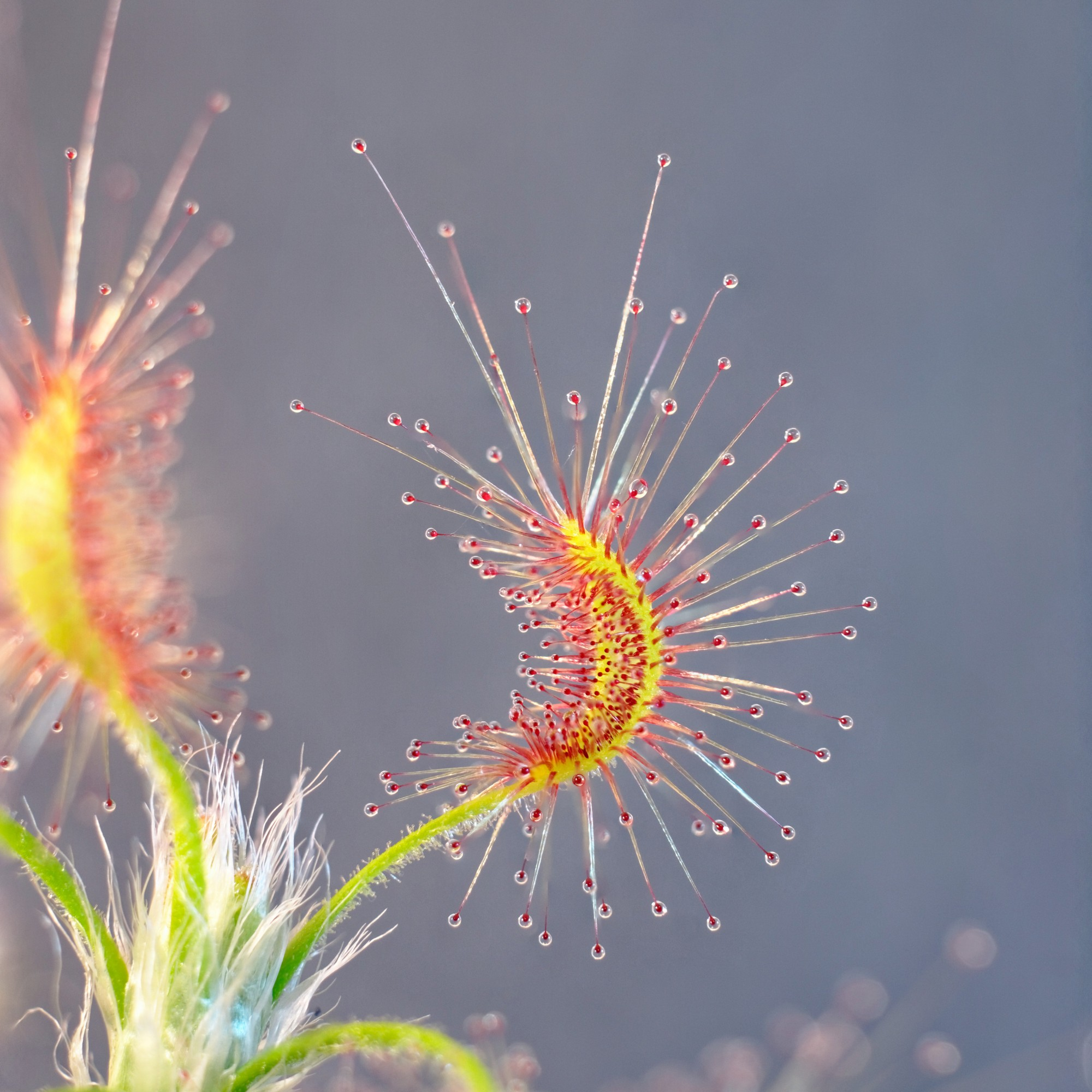 39 image focus stack of a leaf of a mature d. scorpioides.